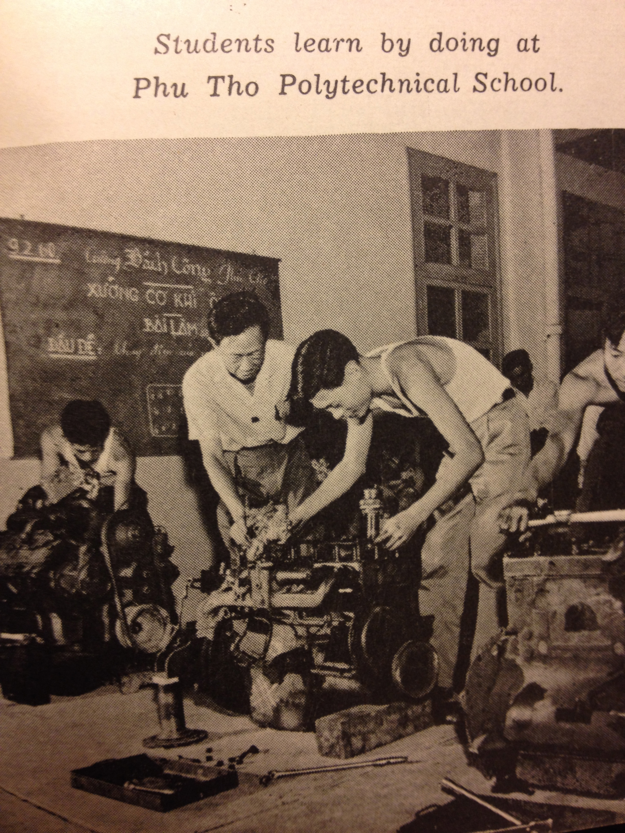 Phu-tho Technical School